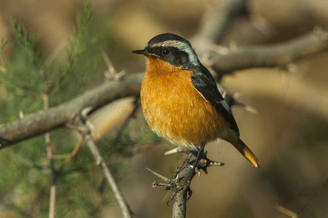 Moussier's Redstart - Oukaimeden Marocco 07_6464